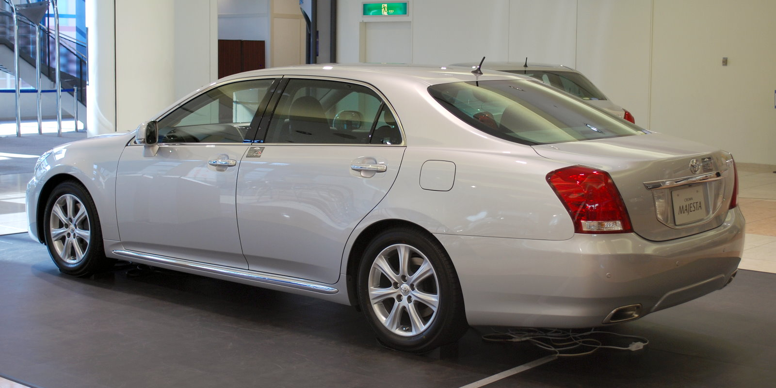 5th generation Toyota Crown Majesta (2009/3 - )